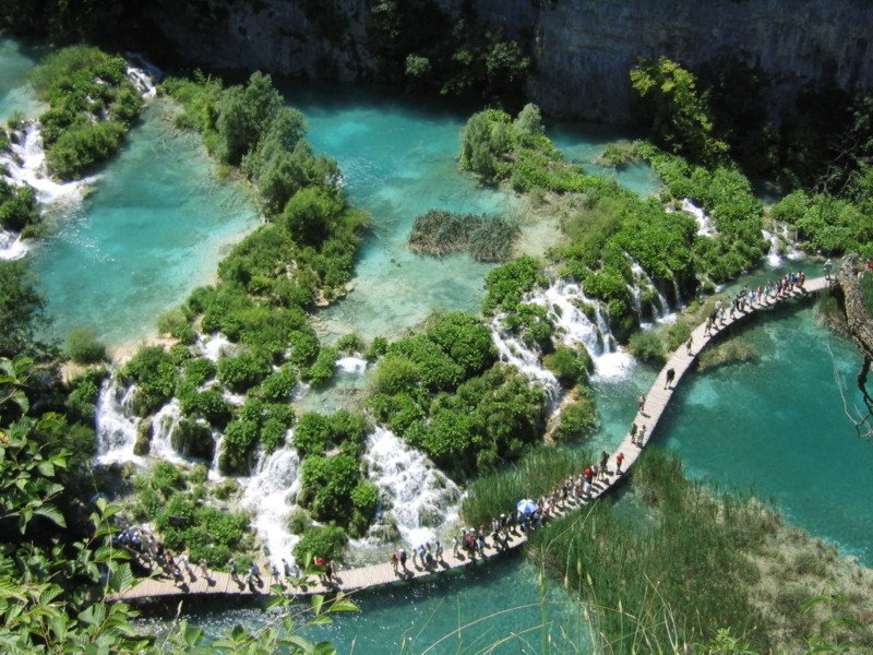 Plitvice nationalpark summer 2005. Picture: Tomi Nieminen